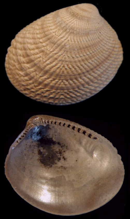 Acila cobboldiae, (extinct species) left valve, adult specimen; Early Pleistocene of the Netherlands. The species was named for the writer Elizabeth Cobbold